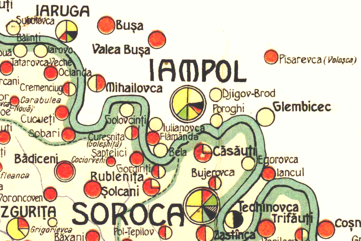 Flămânda (Oxanovka)